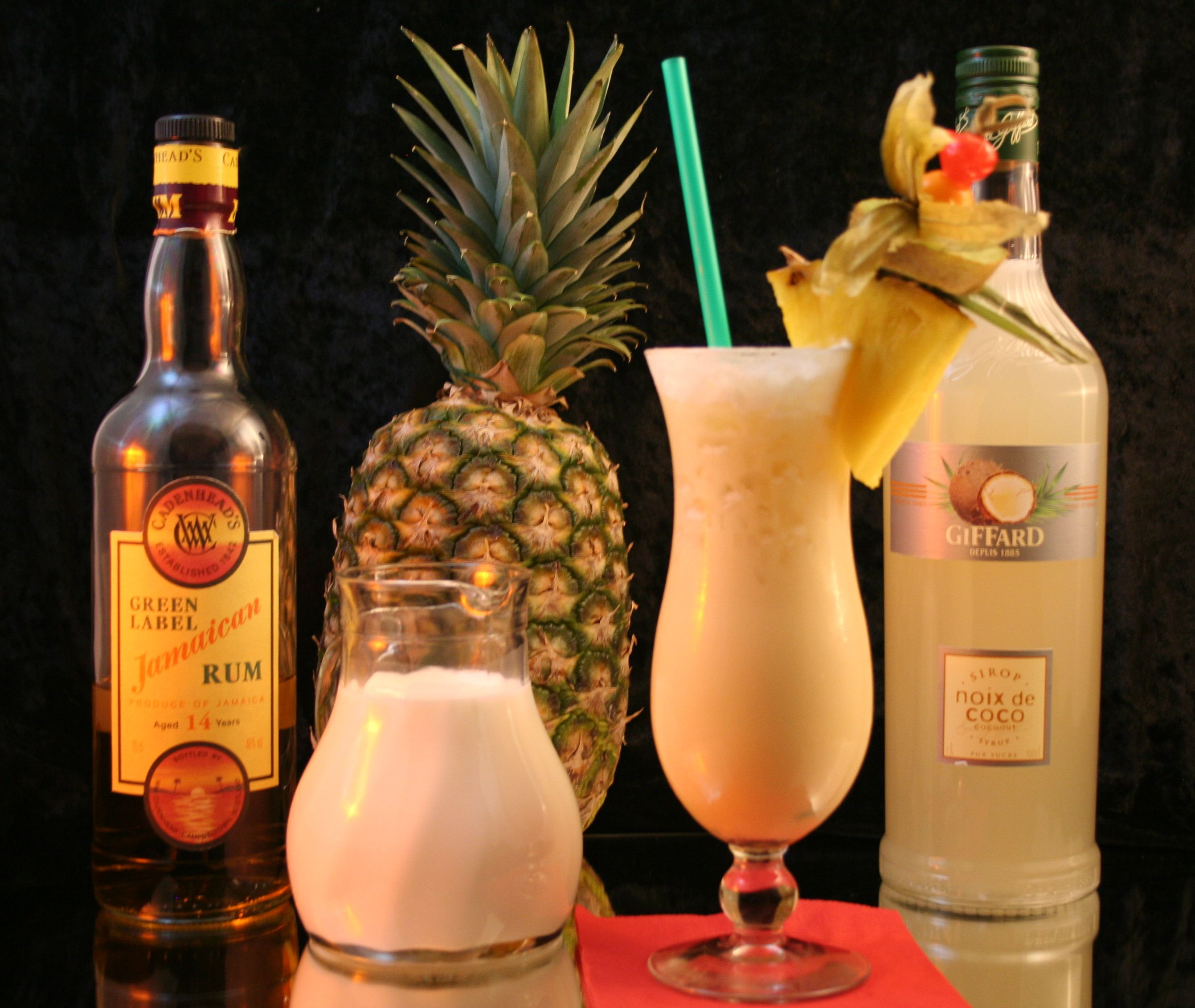 Piña Colada with key ingredients. From left to right: rum, half & half / cream, fresh pineapple, Piña Colada in a Hurricane Glas (with a straw, garnished with a slice of pineapple, a cape gooseberry and a cocktail cherry), coconut syrup